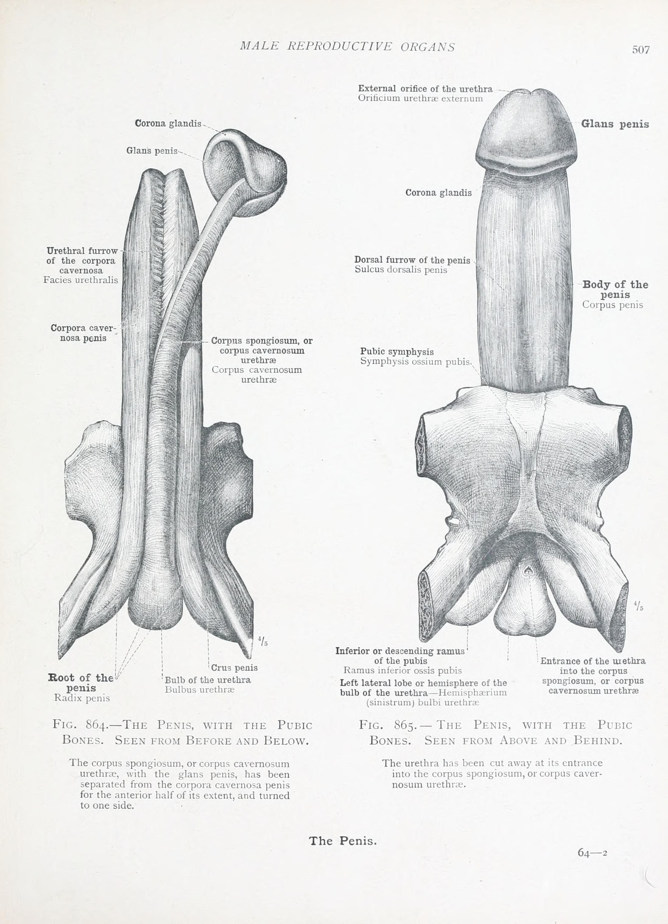 Title: An atlas of human anatomy for students and physicians Year: 1903 (1900s) Authors: Toldt, Carl, 1840-1920 Dalla Rosa, Alois Subjects: Human anatomy Publisher: London Rebman Text Appearing Before Image: of the penis Fibrous capsule of thecorpora cavernosa TiuiicT .ilbugiuea Corpus cavernosum penis Corpus spongiosum, 3r corpus cavernosum urethrae Lacunae or recesses ofthe urethra Lacuna; urethrales(Morgagnii) Fossa navicularis of the urethra Iossa navicularis urethra; (Morgagnii) (i) Pars prostatica urctlira;. (2) Pars mem Fig. 862.—The Penis, with the Urethra,Cowpers Glands,^ the Prostate Gland,AND the Seminal Vesicles, seen fromBelow and Behind. Fig. 863. -- The Male Urethra, openedfrom Above and Before by a SagittalSection close to the PectiniformSeptum of the Penis. so as the suhtirethralgtands.4 Known also as Cat:prostatic sh - See Appendix, note ^., prostatic Zcsic/c, sinus poculnr Penis—The penis.—Urethra virilis—The male urethra. MALE REPRODUCTIVE ORGANS 507 External orifice of the urethra Oriiicium urethra; externu Corona glandis.Glans penis Urethra! funowof the corpora cavernosaFacies urethrihs Corpus spongiosum, orcorpus cavernosum urethrasLurfus ta\einosum urethras Text Appearing After Image: Glaus penis Corona glandis Dorsal furrow of the penis Sulcus dorsalis penis Pubic symphysis Symphysis ossium pubis fj! Body of thepenis (iirptis penis